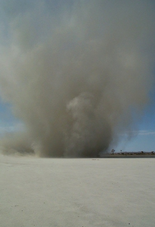 Dust Devil, El Mirage Dry Lake, Mojave Desert